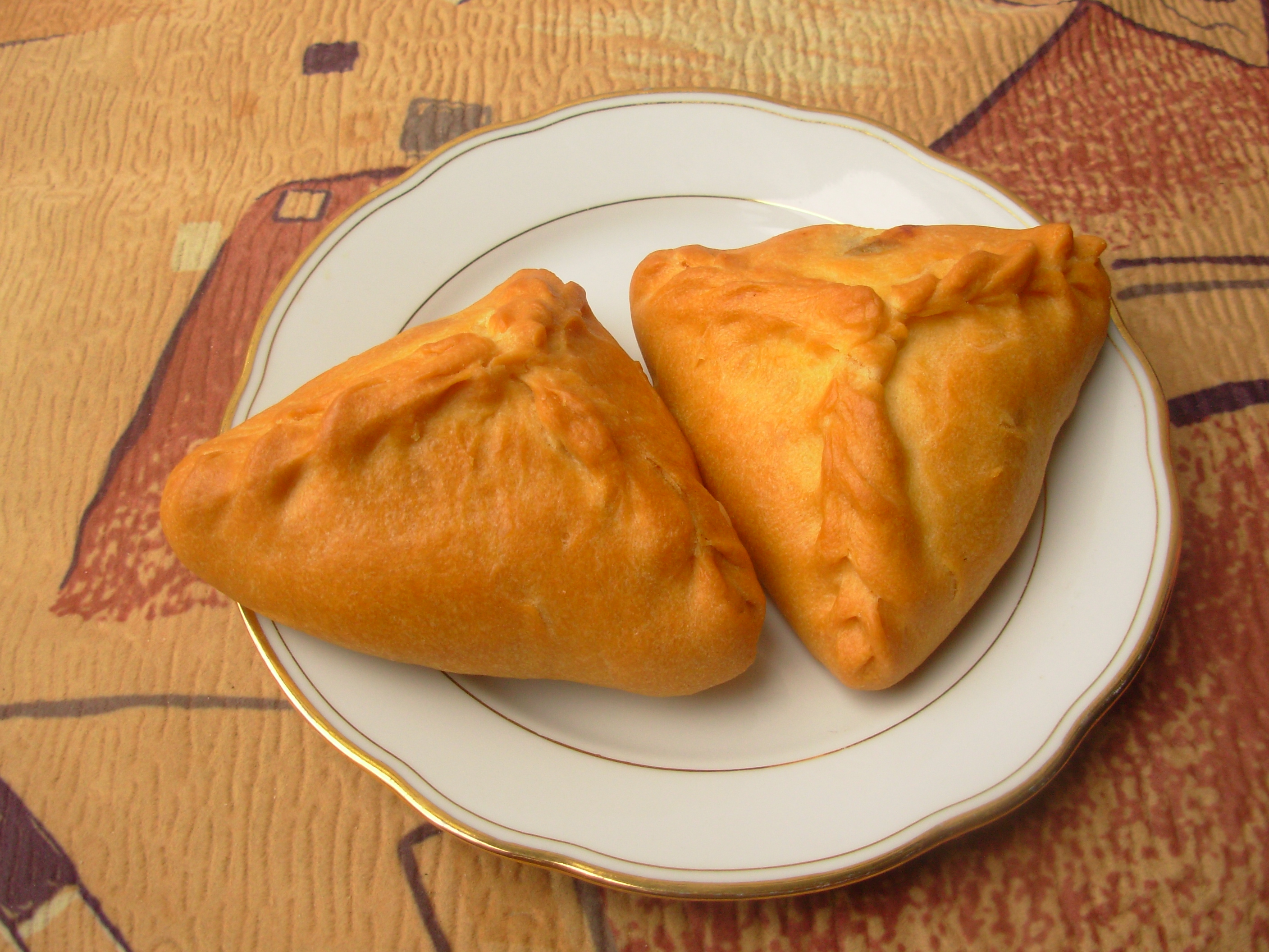 Echpochmak